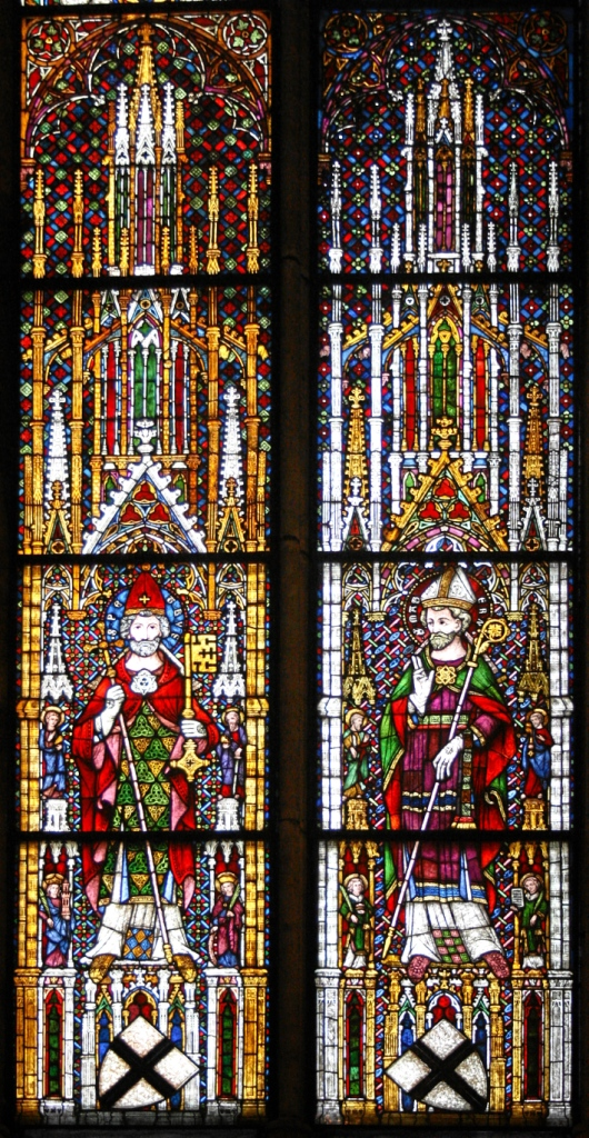 Cologne Cathedral, Germany. Gothic stained glass window in chevet, "Petrus- und Maternusfenster", created 1330-40.